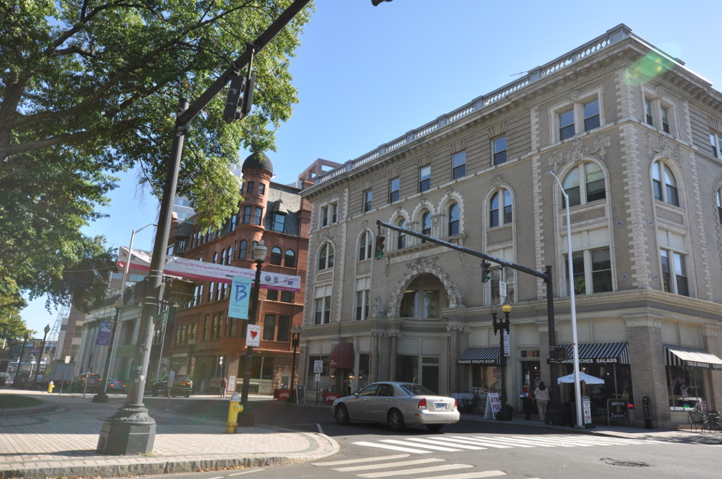 Bridgeport Downtown South Historic District, Bridgeport, Connecticut